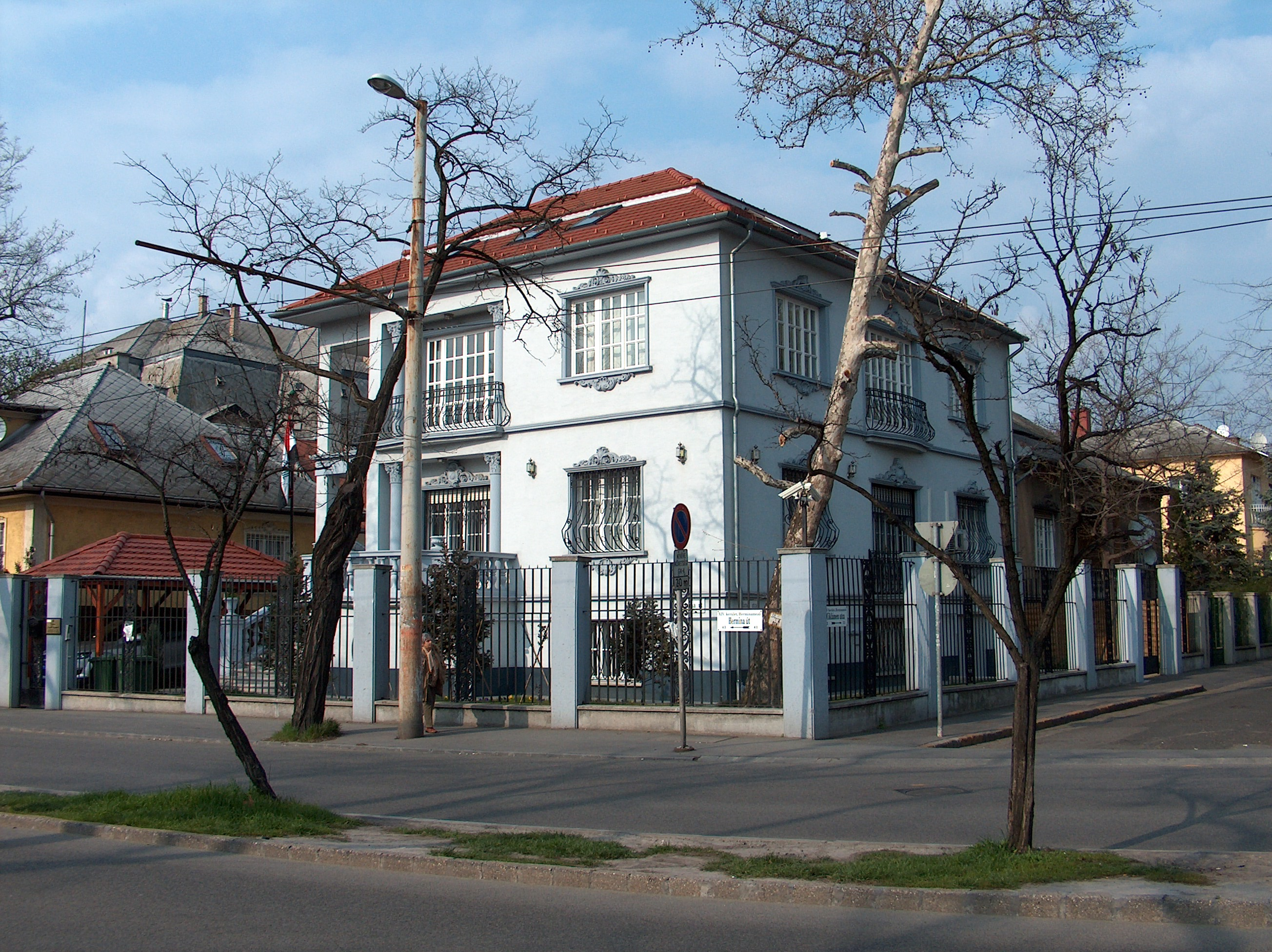 Embassy of Irak - Budapest